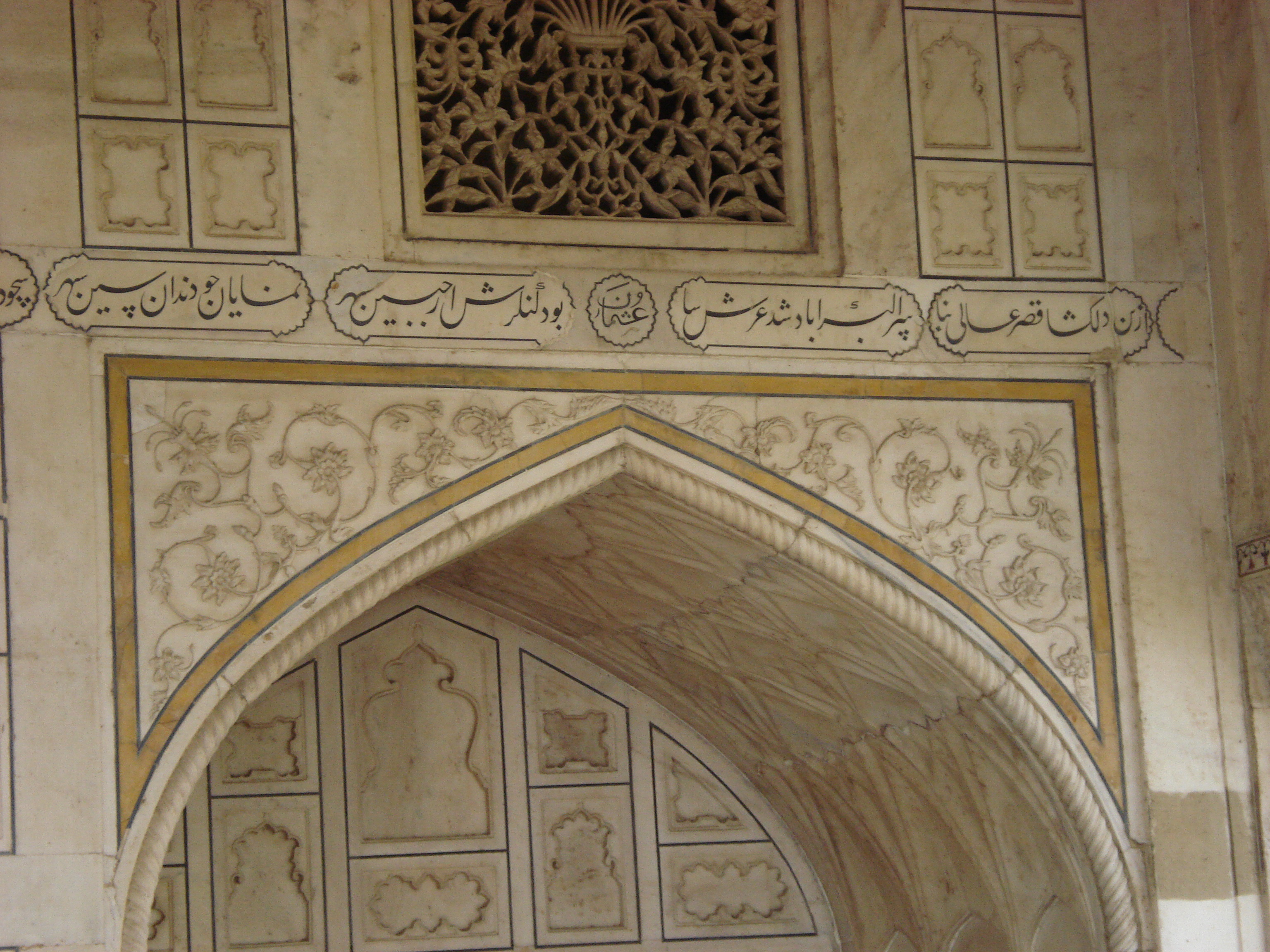 Agra castle India persian poem